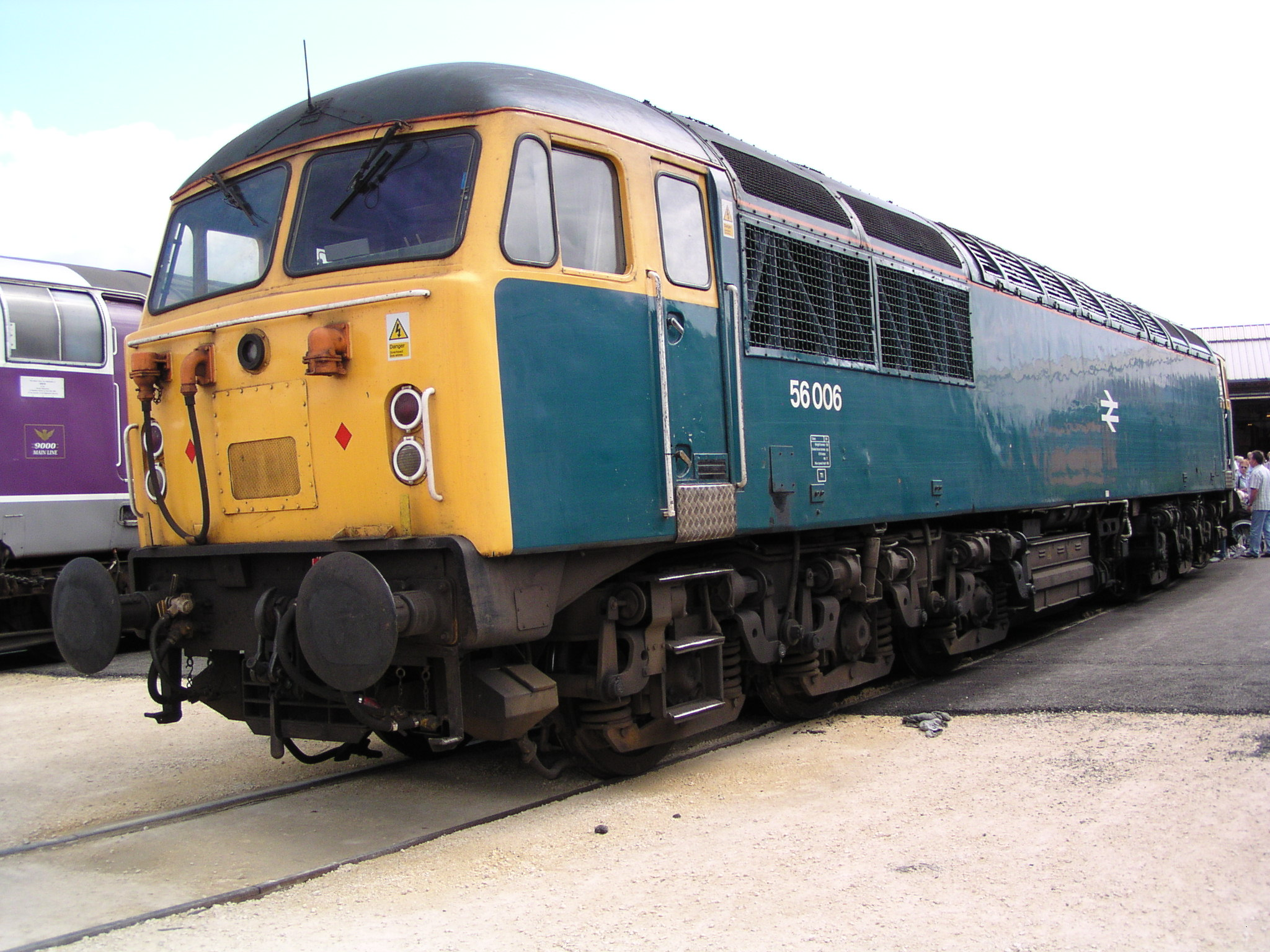 British Rail Class 56, no. 56006, on display at Doncaster Works open day on 27th July 2003. This locomotive was repainted into its original BR blue livery in 1999. Image by Phil Scott (Our Phellap)